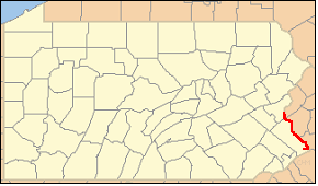 Map of Delaware Canal State Park created by Dincher using Pennsylvania Locator Map created by Ruhrfisch